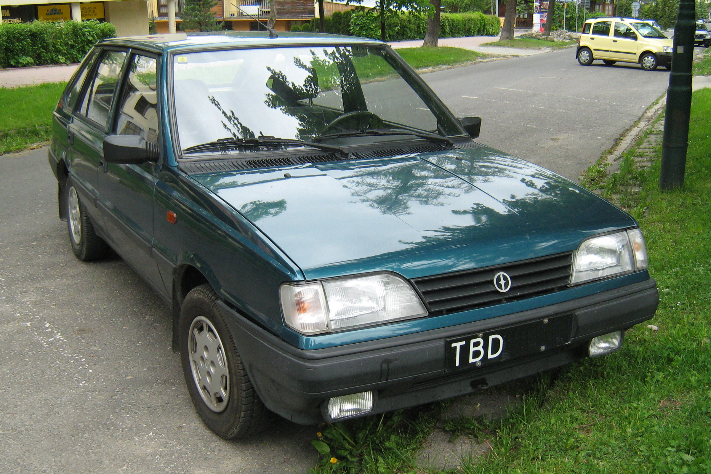 FSO Polonez Caro MR'93 hatchback finished in green.